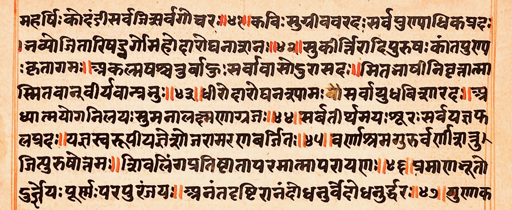 This is a page from the Linga Purana manuscript. Language: Sanskrit Script: Devenagari This manuscript was acquired in the 19th-century, and was produced in or before the acquisition. The photo above is of a 2D artwork from the text that was itself authored more than 500 years ago. Therefore Wikimedia Commons PD-Art licensing guidelines apply. Any rights I have as a photographer is herewith donated to wikimedia commons under CC 4.0 license.